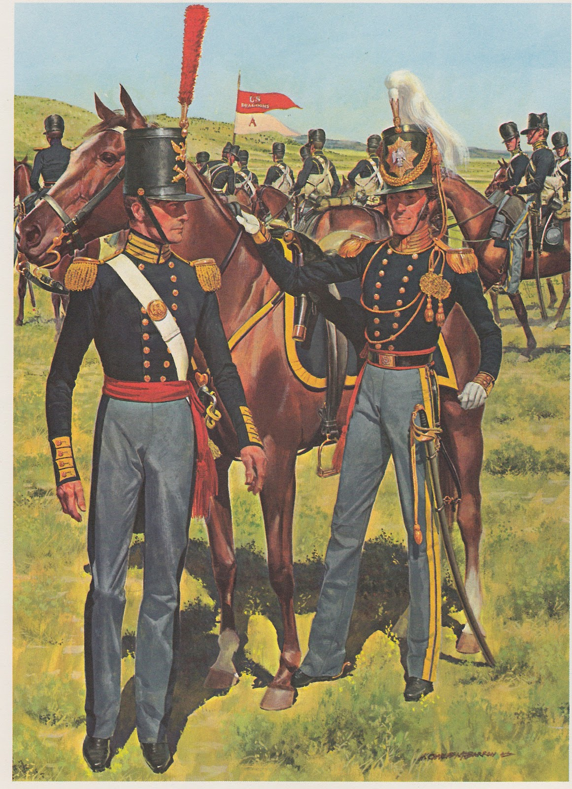 In the right foreground stands a subaltern of the First Regiment of Dragoons in a blue coat with a yellow collar hidden by gold lace, yellow cuffs and turnbacks,and light blue trousers with yellow stripe& The drooping white horsehair plume indicates he is a troop officer, and the two buttons on the gold lace slashflaps on the cuffs show his rank of second lieutenant. In the background, the dragoons going out on patrol are dressed in their distinctive dark blue jackets trimmed with yellow lace and wear their collapsible leather forage caps. They are headed by their red and white guidon to which the word "Dragoons" was added by order of Secretary of War Lewis Cass in 1833. In the left foreground is an ordnance sergeant-of which there was one on every Army post to care for the arms, ammunition, and other military stores -- in his plain blue coat and light blue trousers with a dark blue stripe down the side. His grade is indicated by the four buttons on the yellow slashflaps on the cuffs,the heavy yellow worsted braid on his epaulettes, and his red sash.